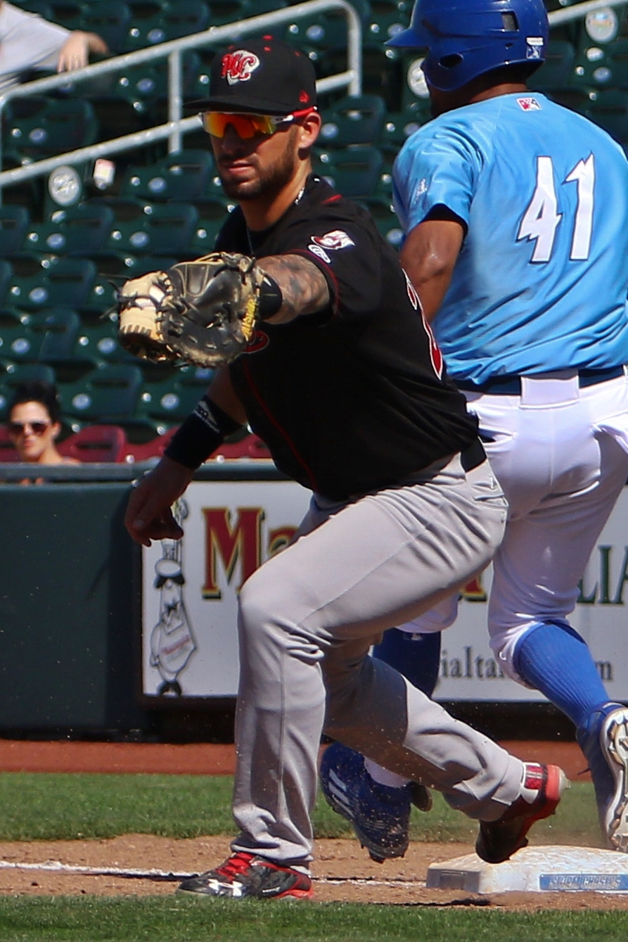 Jorge Bonifacio beating the tag by Rangel Ravelo on an infield single